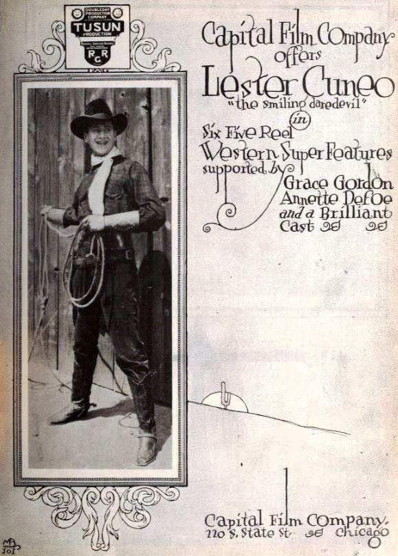 Advertisement for Capital Film Company films starring Lester Cuneo, on page 19 of the October 9, 1920 Exhibitors Herald. The ad gives the supporting cast, and the only film which had these actors was Lone Hand Wilson (1920). It also was the only Capital film released in 1920 with Cuneo.